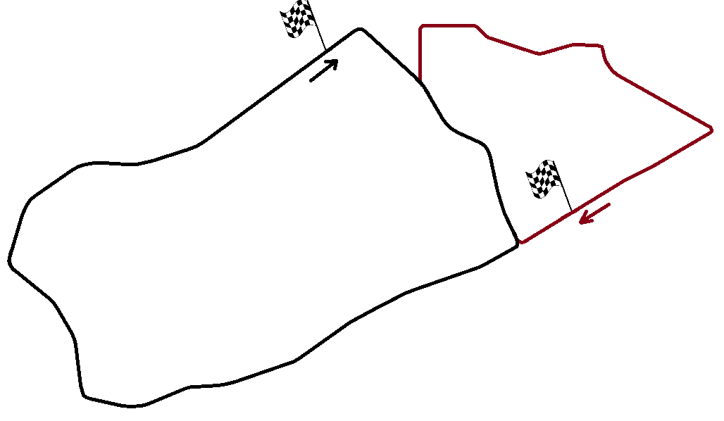 This file shows a diagram that combines the layouts of the old Anfa Circuit and the new Ain-Diab Circuit in Morocco.